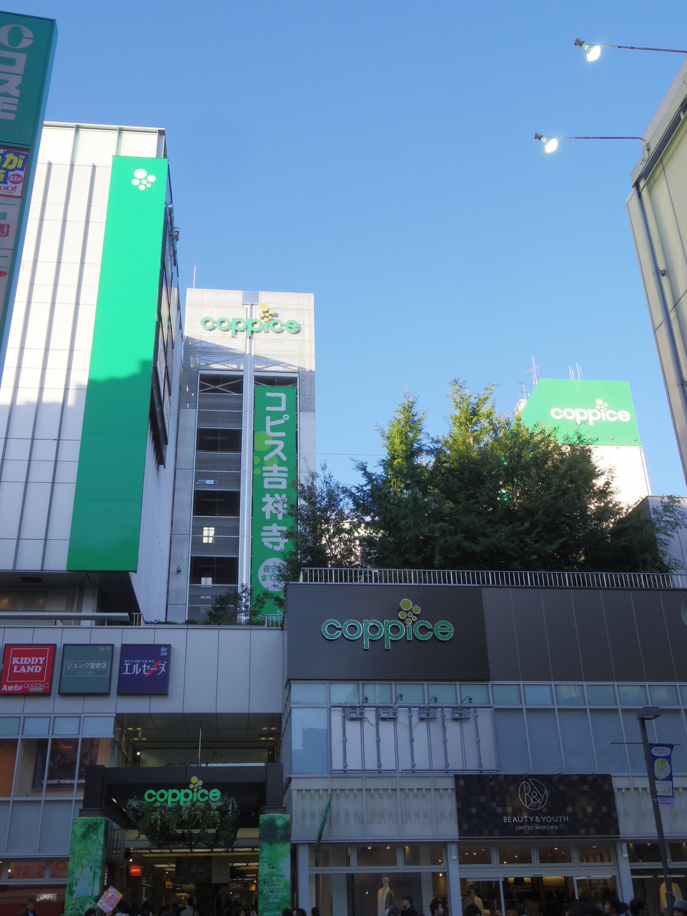 Coppice Kichijoji (Musashino-shi, Tokyo Kichijojihon-cho 1-chome, 11-15)